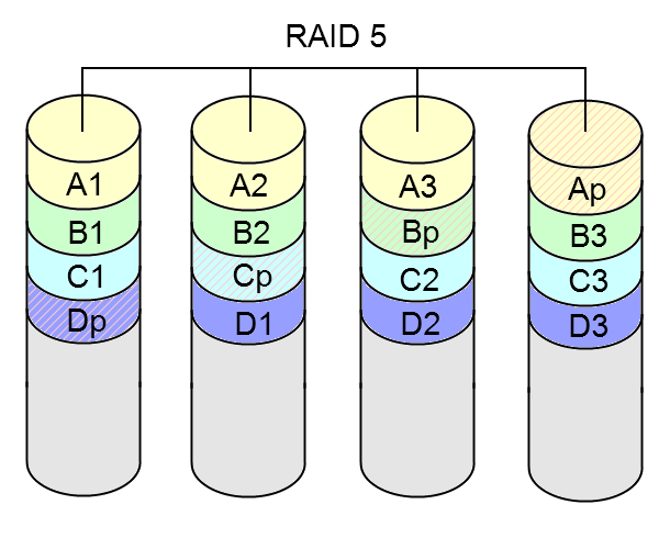 Diagram of RAID 5 storage